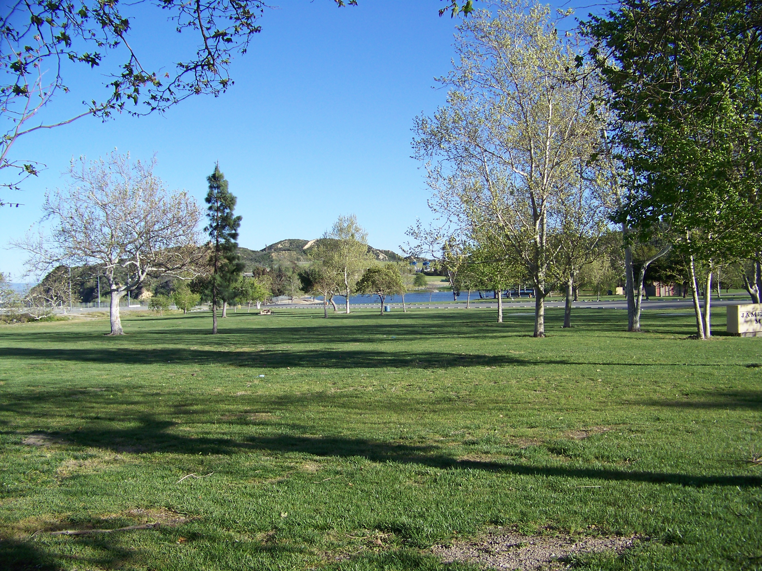 Glen Helen Regional Park Location of Sycamore Grove 2